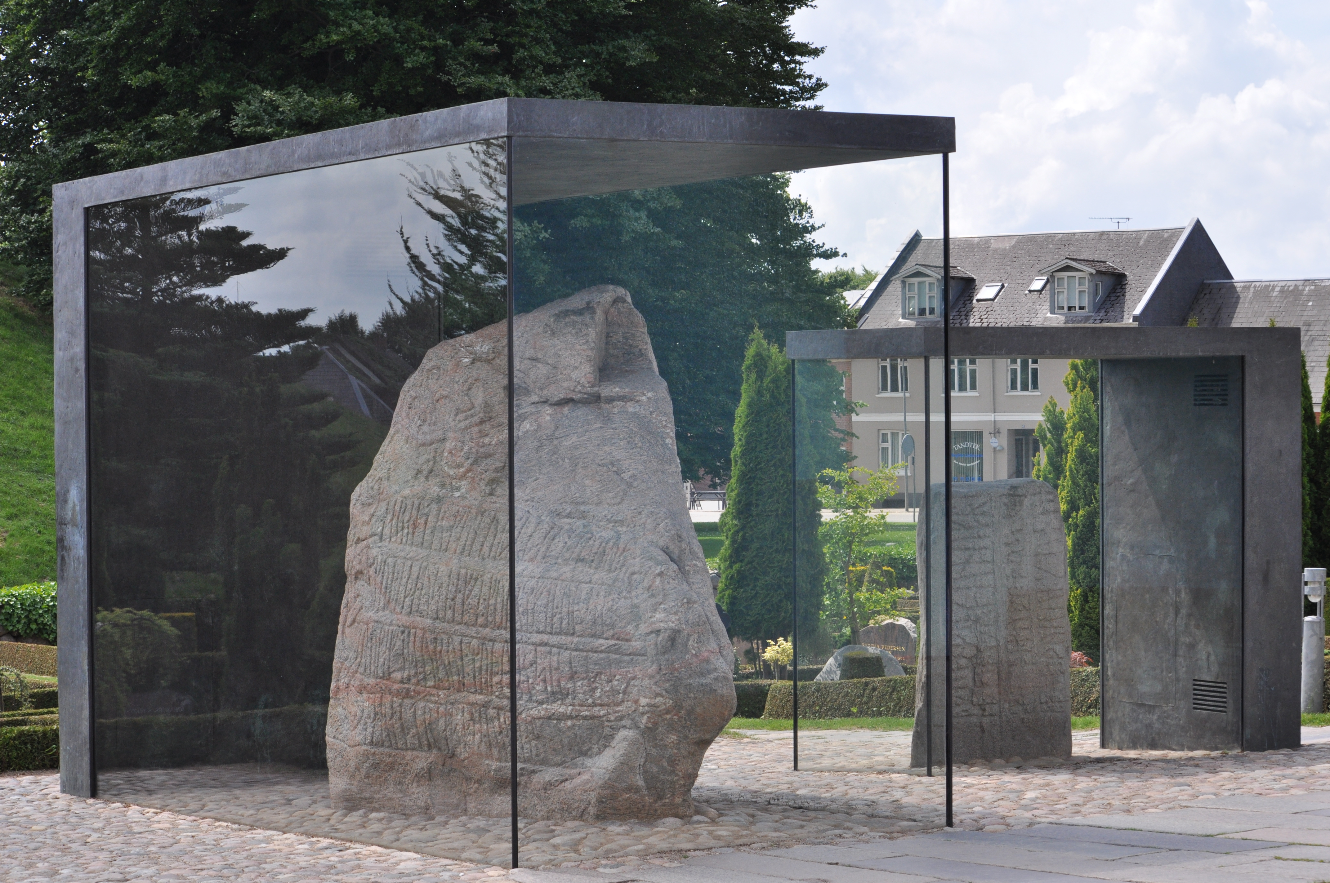 Jelling rune stones.